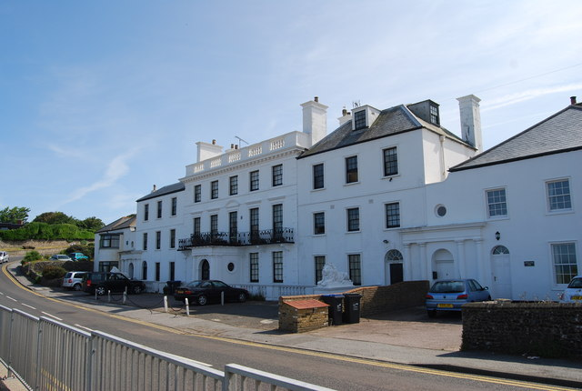 Holland House, Kingsgate Bay A large mansion opposite Kingsgate Castle conver , which as been converted into smaller residences.